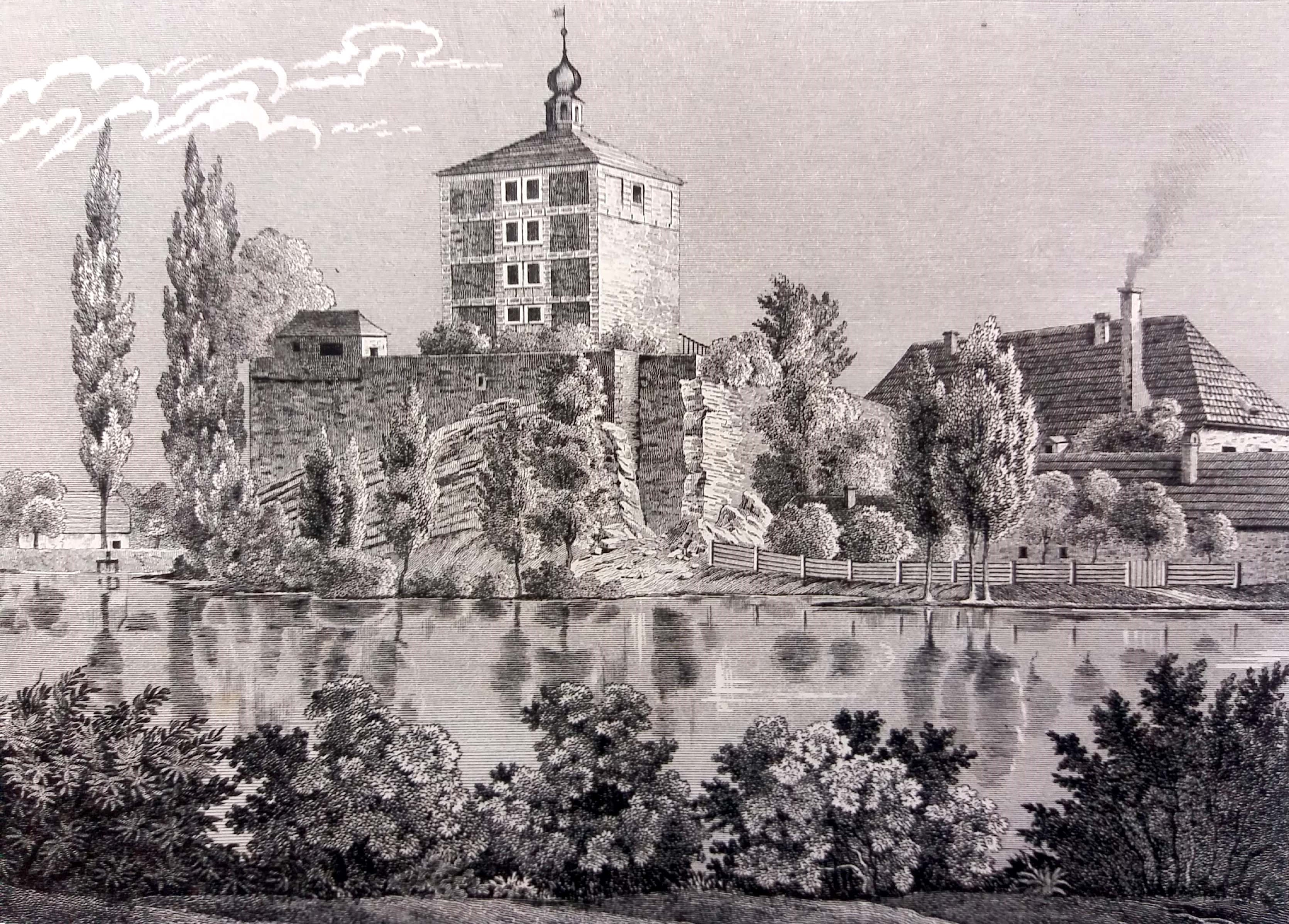 Heber